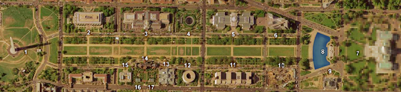 Color-modified satellite image of the National Mall in Washington, D.C. Key to image: Washington Monument (pixellated in original image) National Museum of American History National Museum of Natural History National Gallery of Art West Building of the National Gallery of Art East Building of the National Gallery of Art United States Capitol (pixellated in original image, presumably for security reasons) Ulysses S. Grant Memorial United States Botanic Garden National Museum of the American Indian National Air and Space Museum Hirshhorn Museum and Sculpture Garden Arts and Industries Building Smithsonian Institution Building ("The Castle") Freer Gallery of Art Arthur M. Sackler Gallery National Museum of African Art